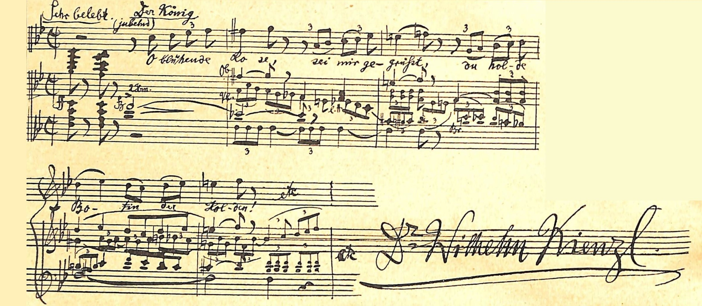 Signature of Wilhelm Kienzl and a Music peace